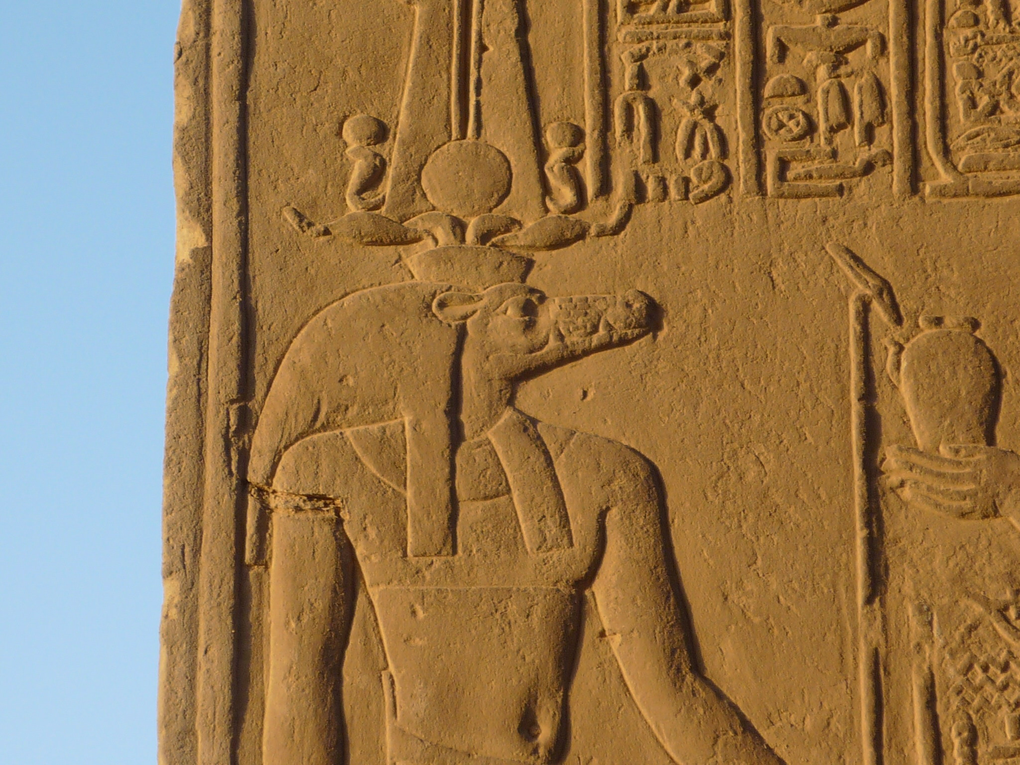 Wall relief of Sobek, Kom Ombo Temple, Egypt